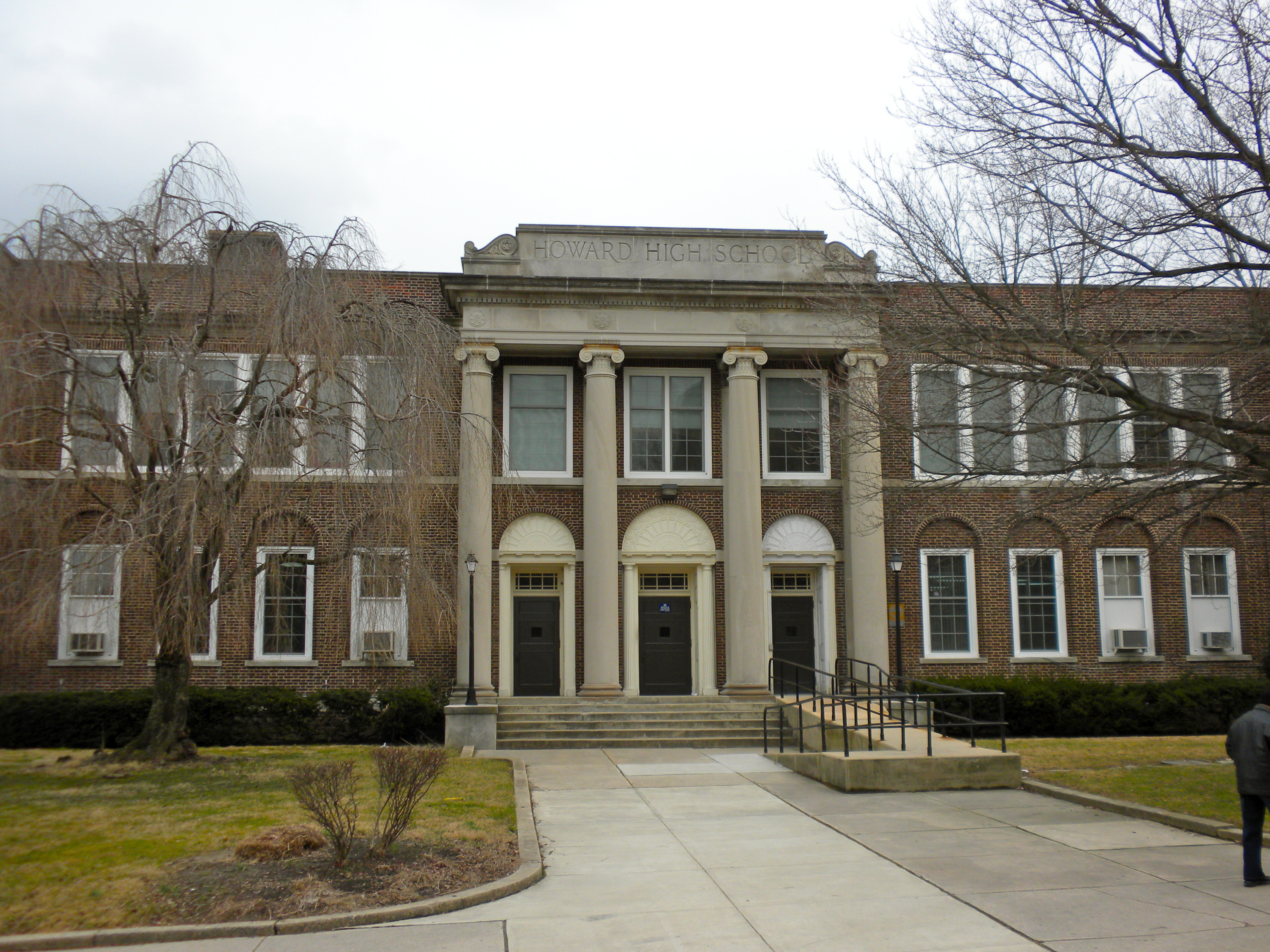 Former Howard High School in in Wilmington, Delaware, now a job training center. Notable in civil rights in the 1950s. [ 1st integrated or Black high school in Delaware (?) ] On NRHP. 13th and Poplar Sts., Wilmington, Delaware.